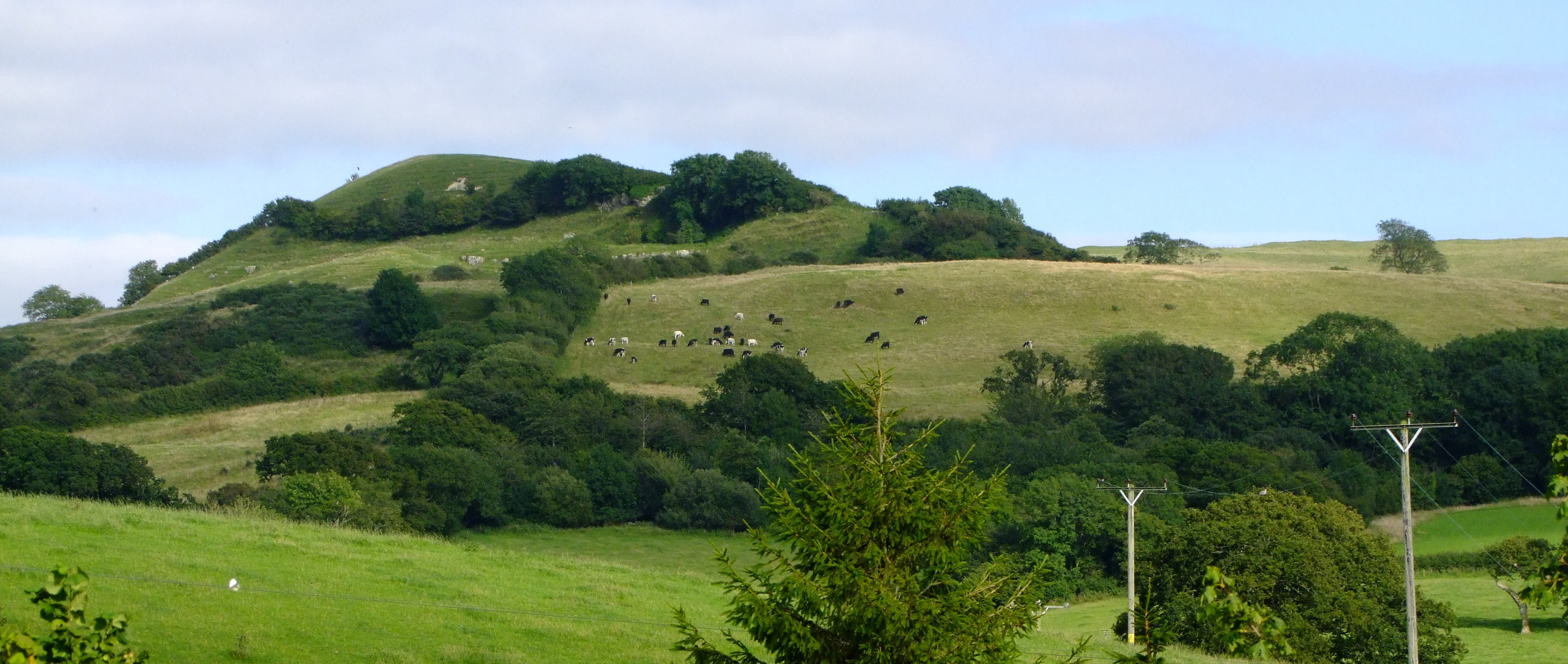 Eggardon Hill, West Dorset, seen from the south west, August 2009